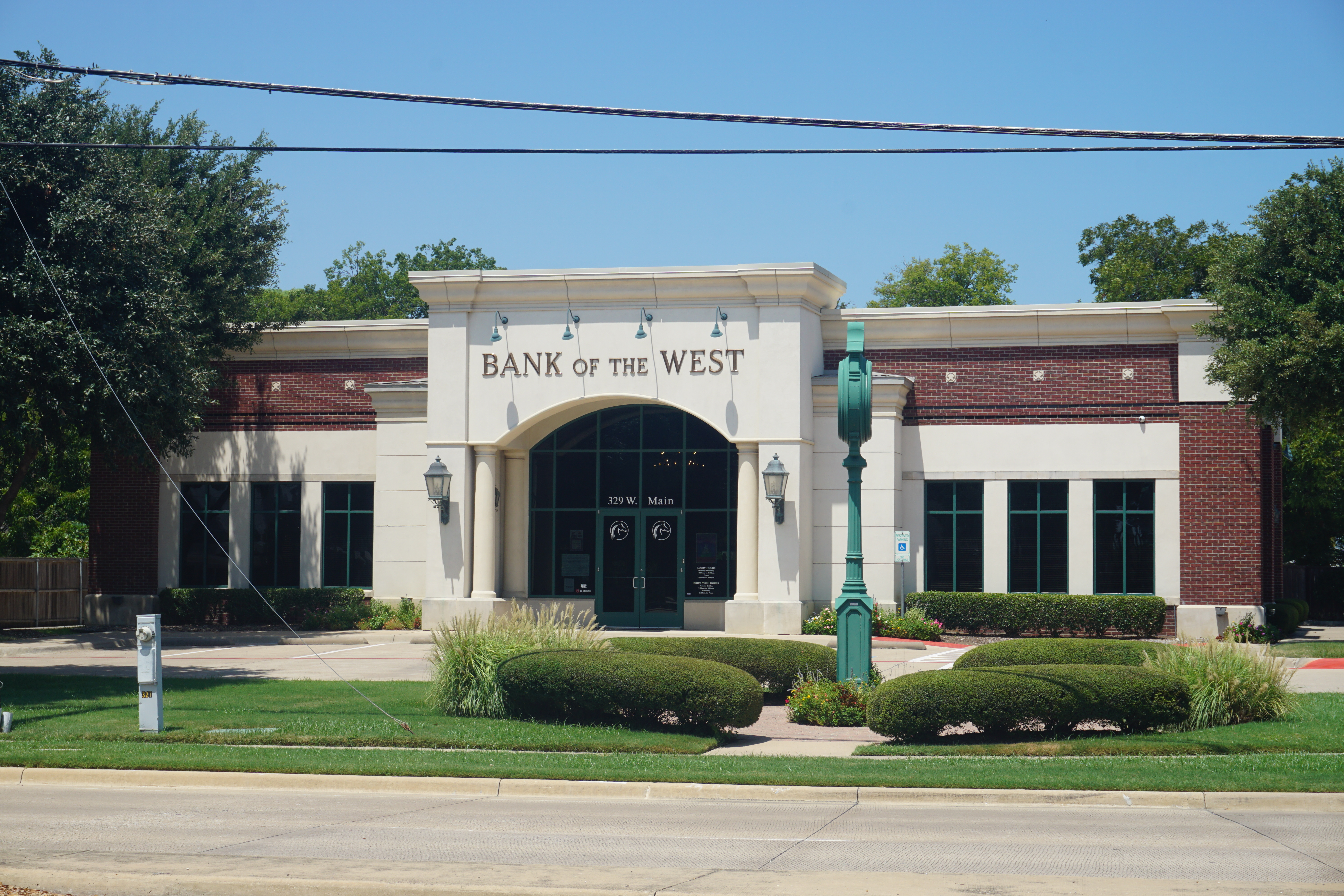 Bank of the West in Lewisville, Texas (United States).